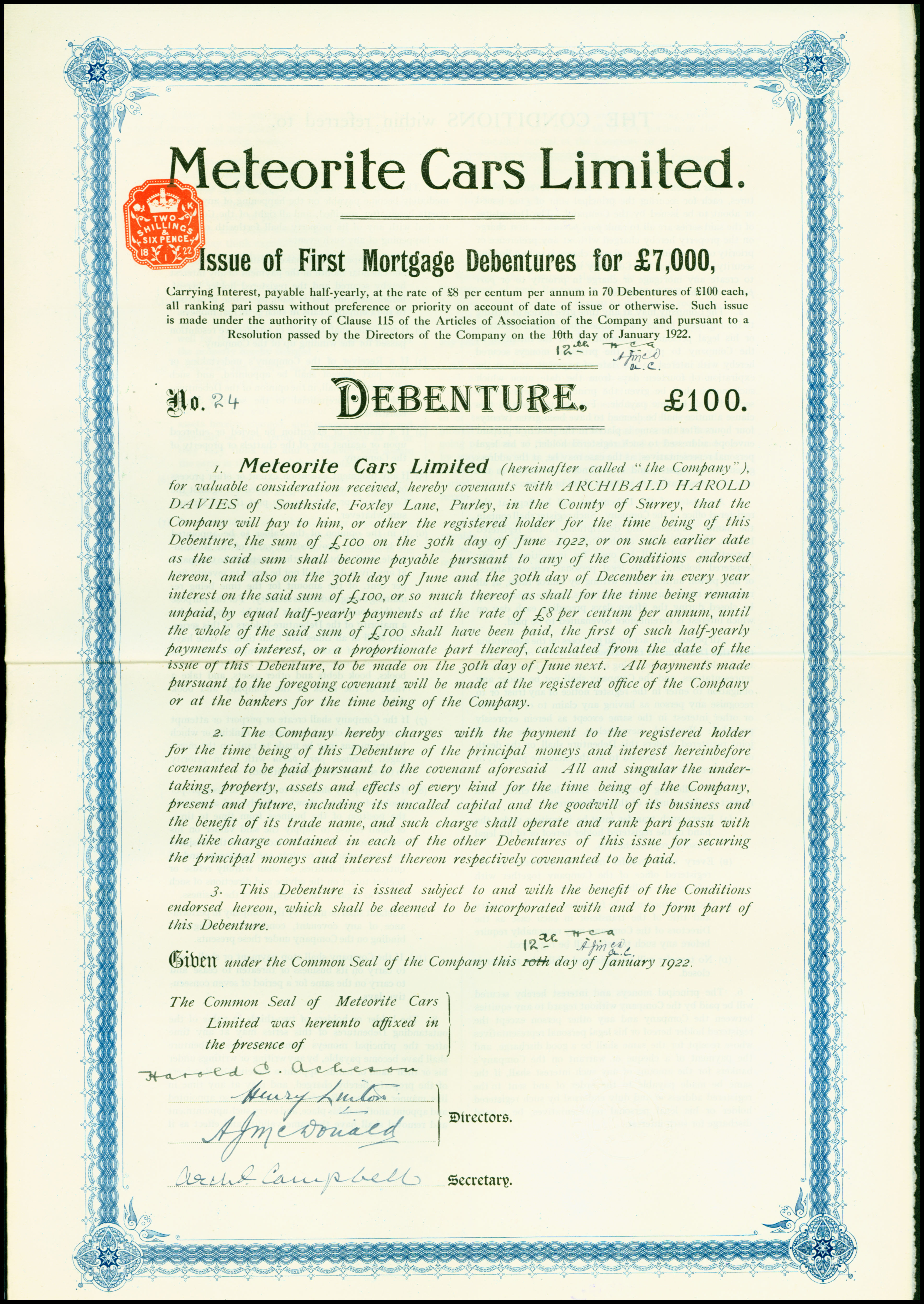 Debenture of the Meteorite Cars Ltd., issued 12. January 1922